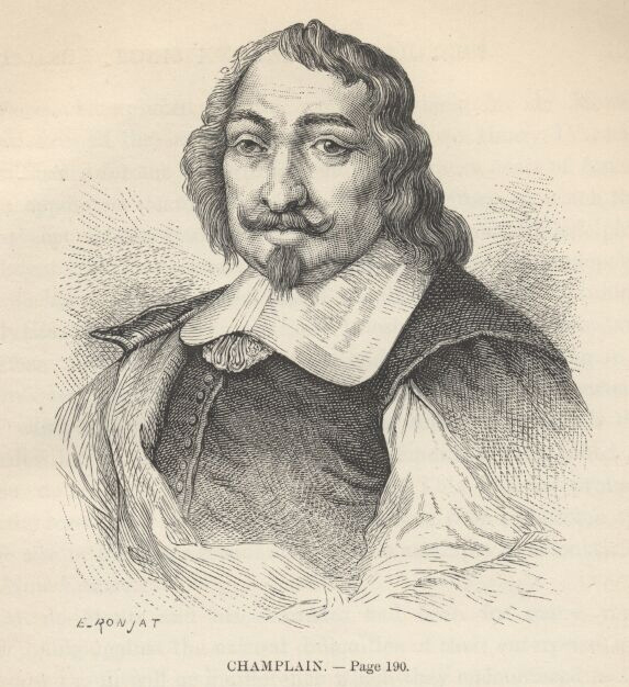 Samuel_de_Champlain (1567-1635), probably after a portrait by Moncornet